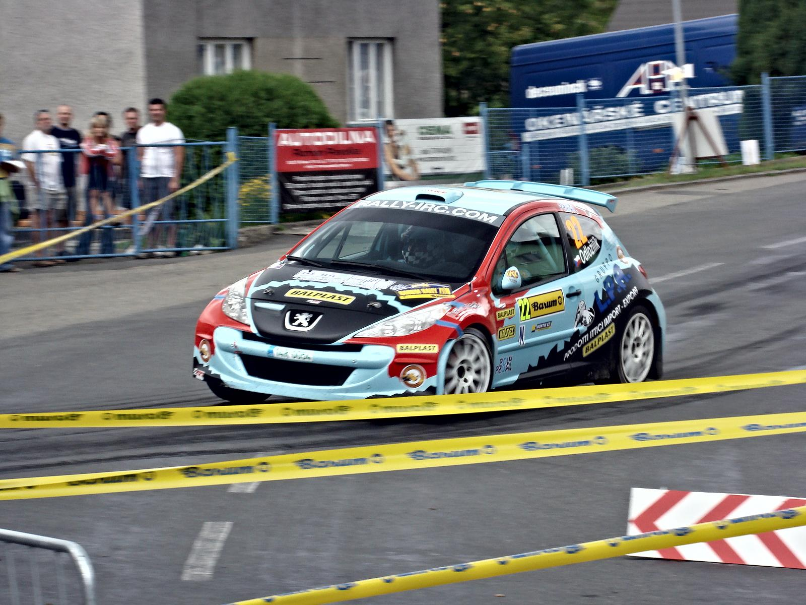 Barum Rally Zlín in 2008